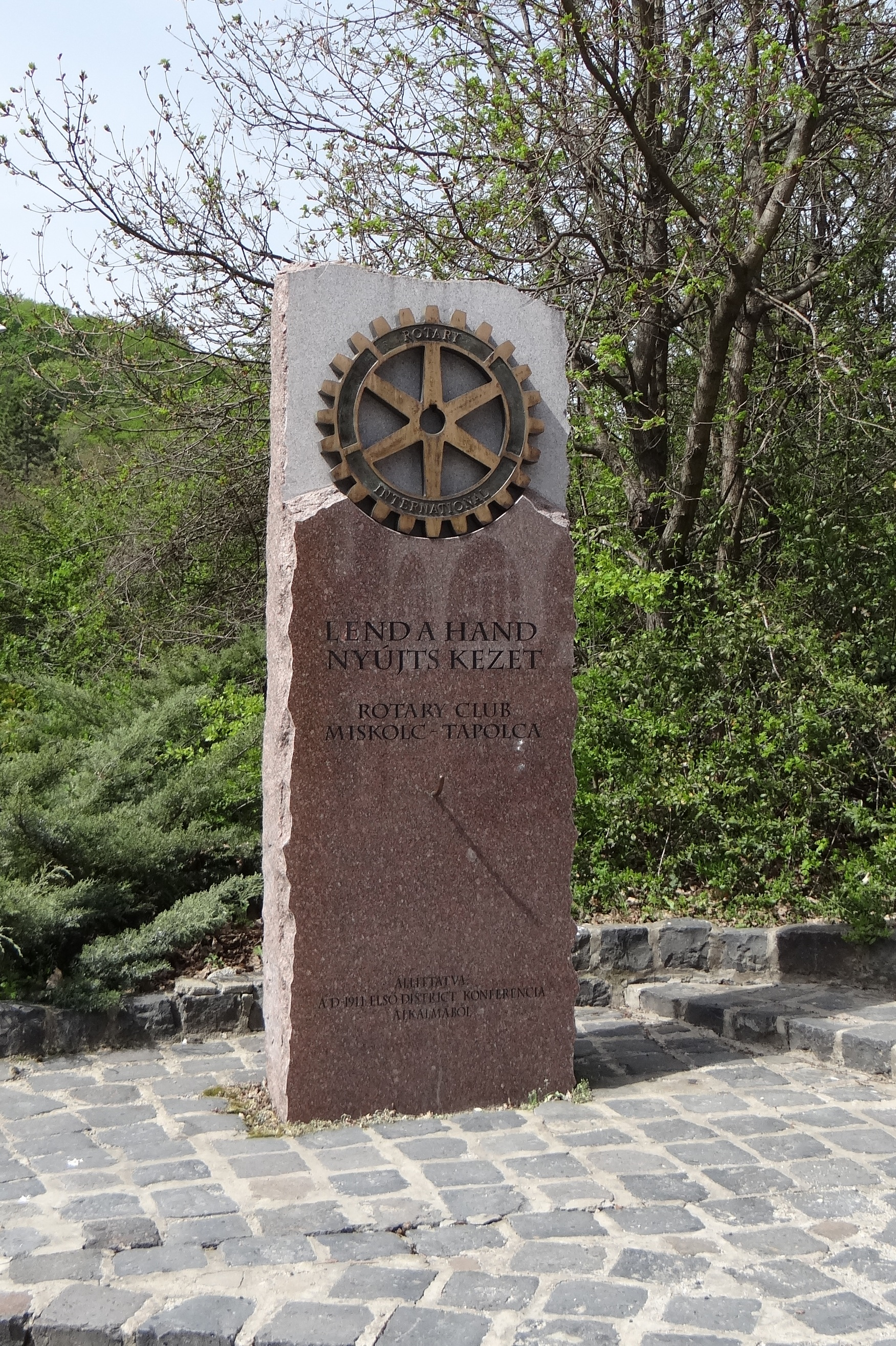 Rotary Club Column, Miskolctapolca, Hungary